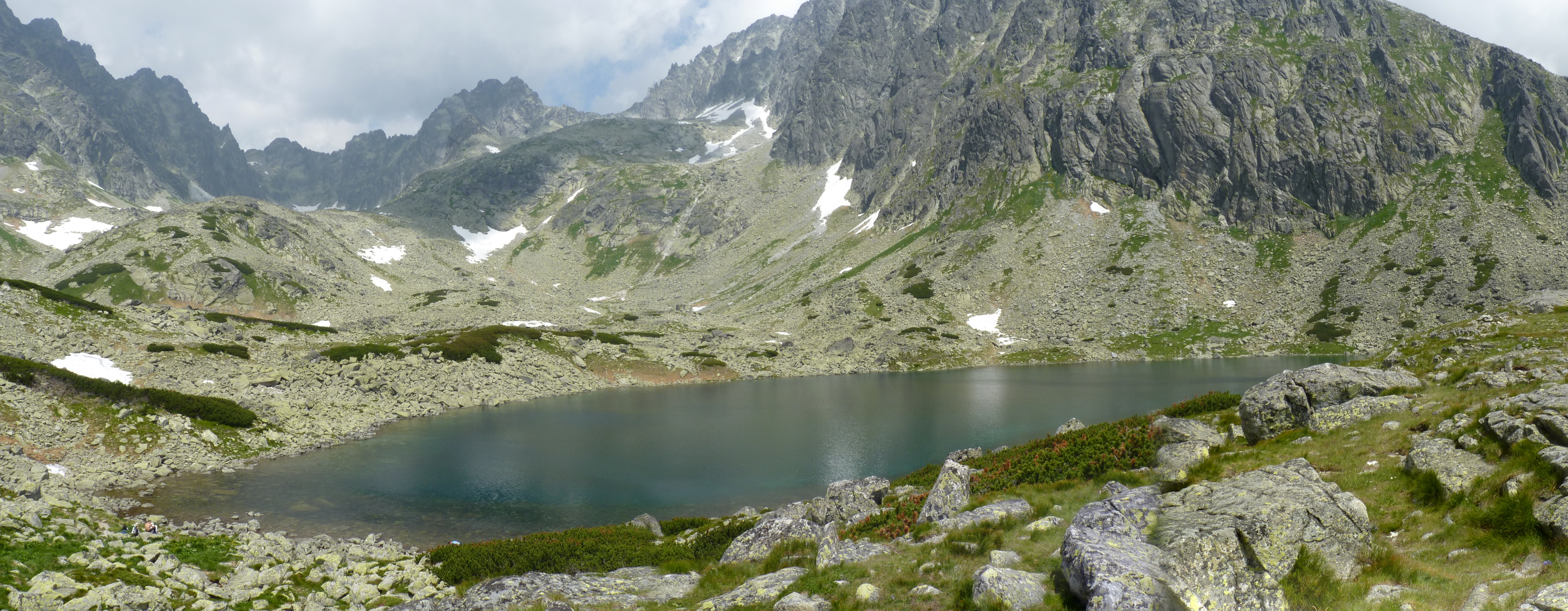 Batizovská dolina (Batizov Valley), High Tatras, Slovakia